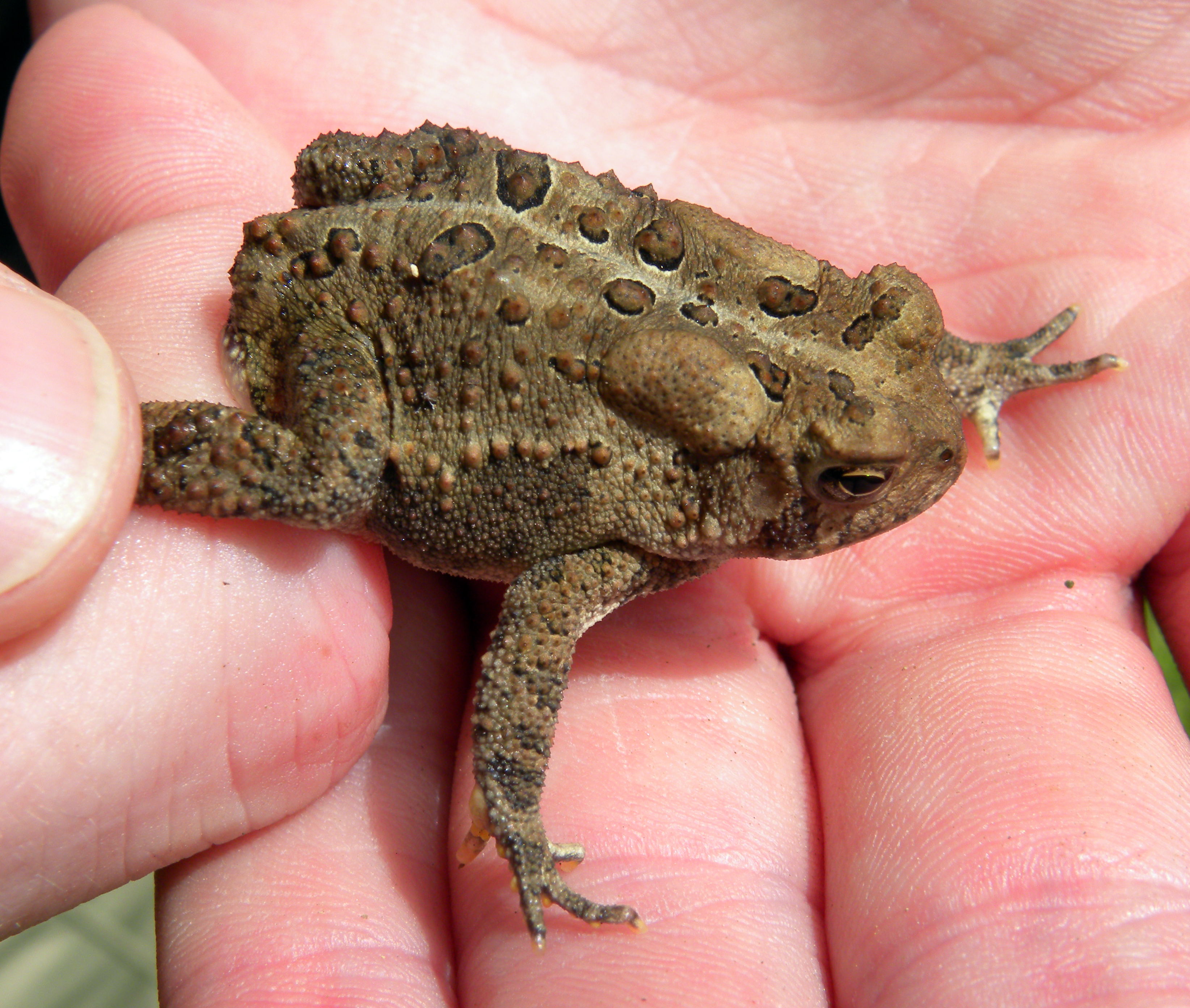 Bufo americanus americanus (Eastern American Toad) in Wooster, Ohio, USA.